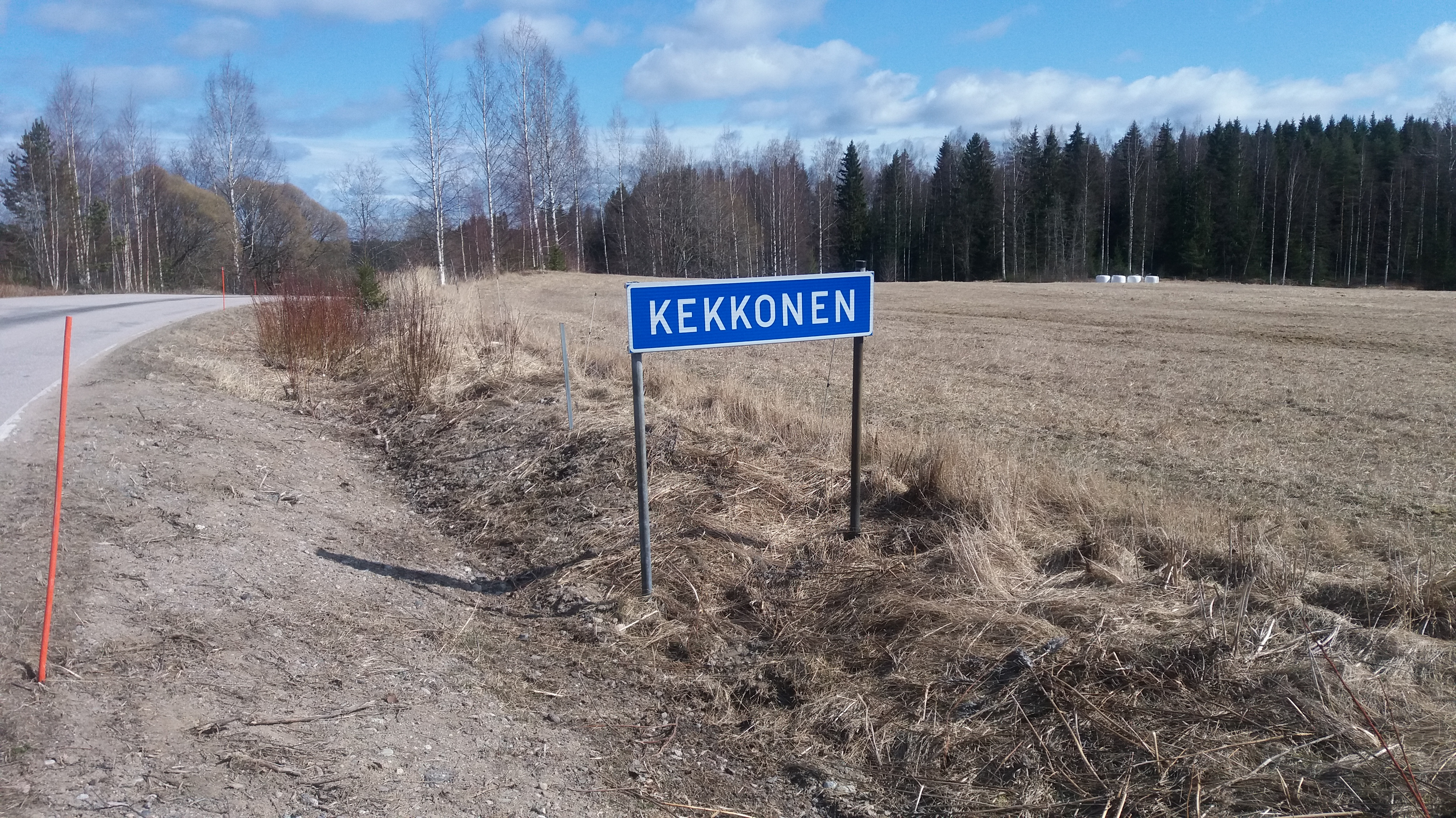 Sign of the Kekkonen village, road o 3383, Ruovesi, Finland.